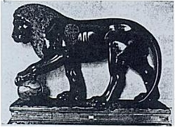 The lion of the Albani Collection in the Louvre